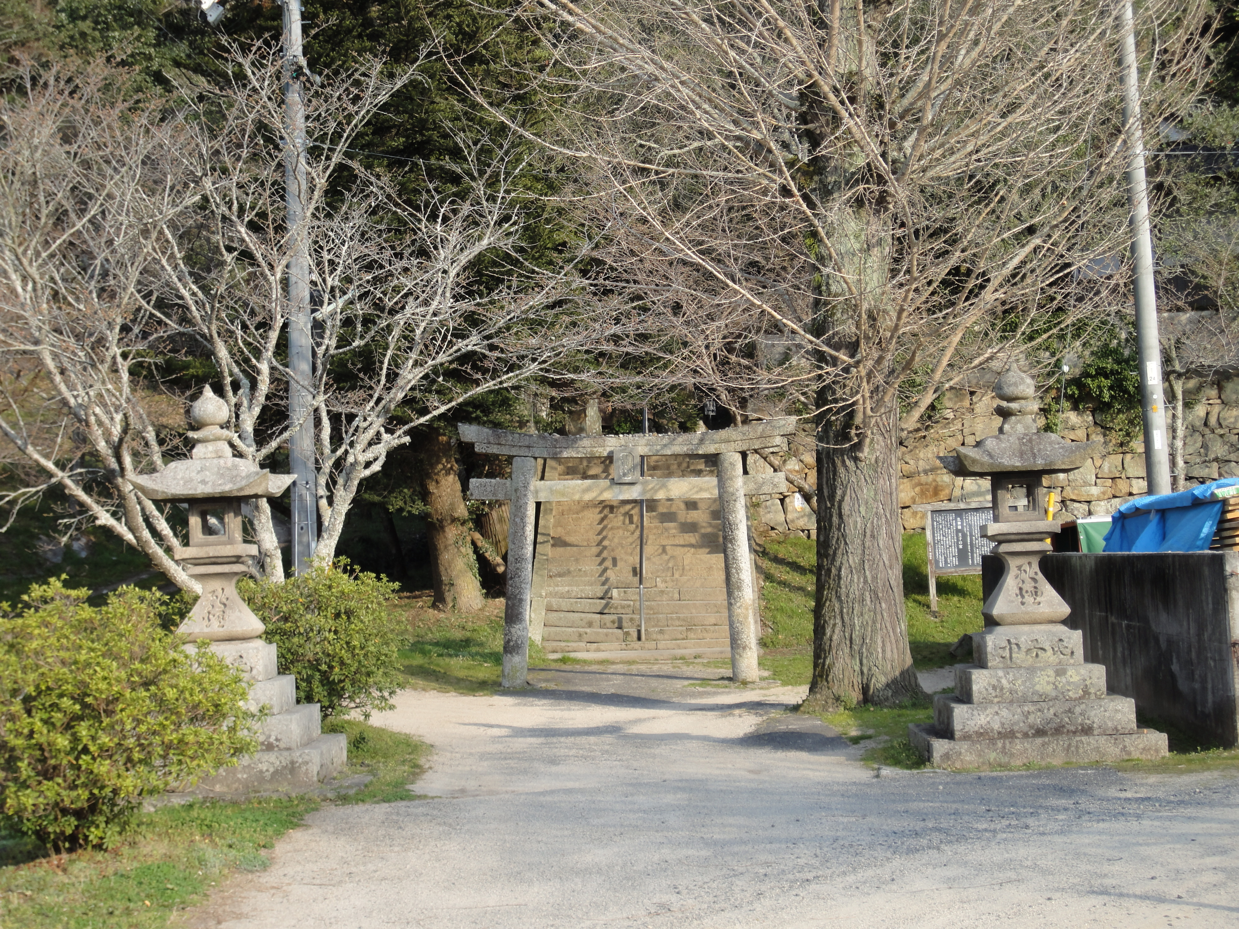 Sandō of Karube Jinja, Sōja, Okayama pref., Japan.